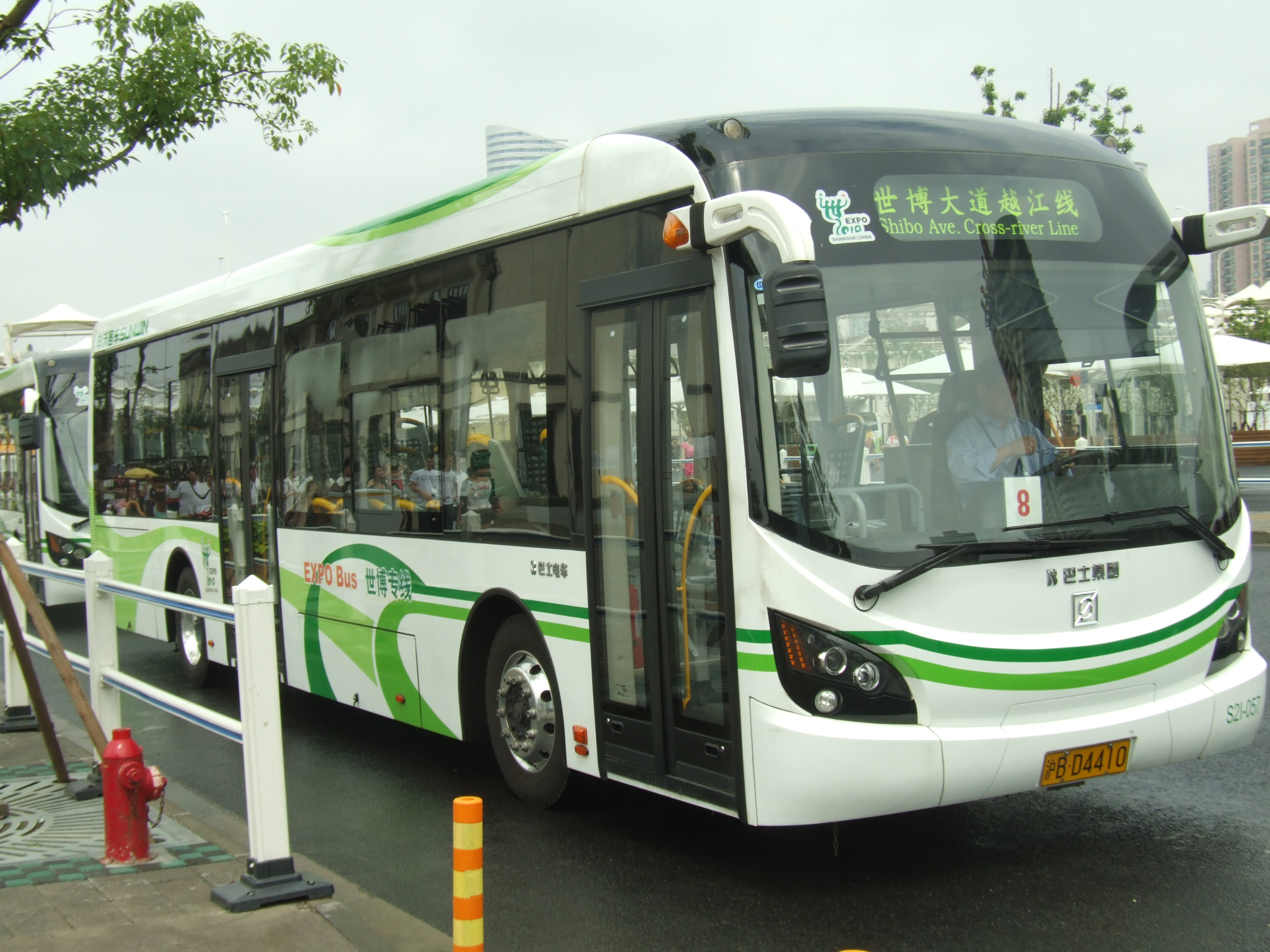 The bus in the Expo 2010